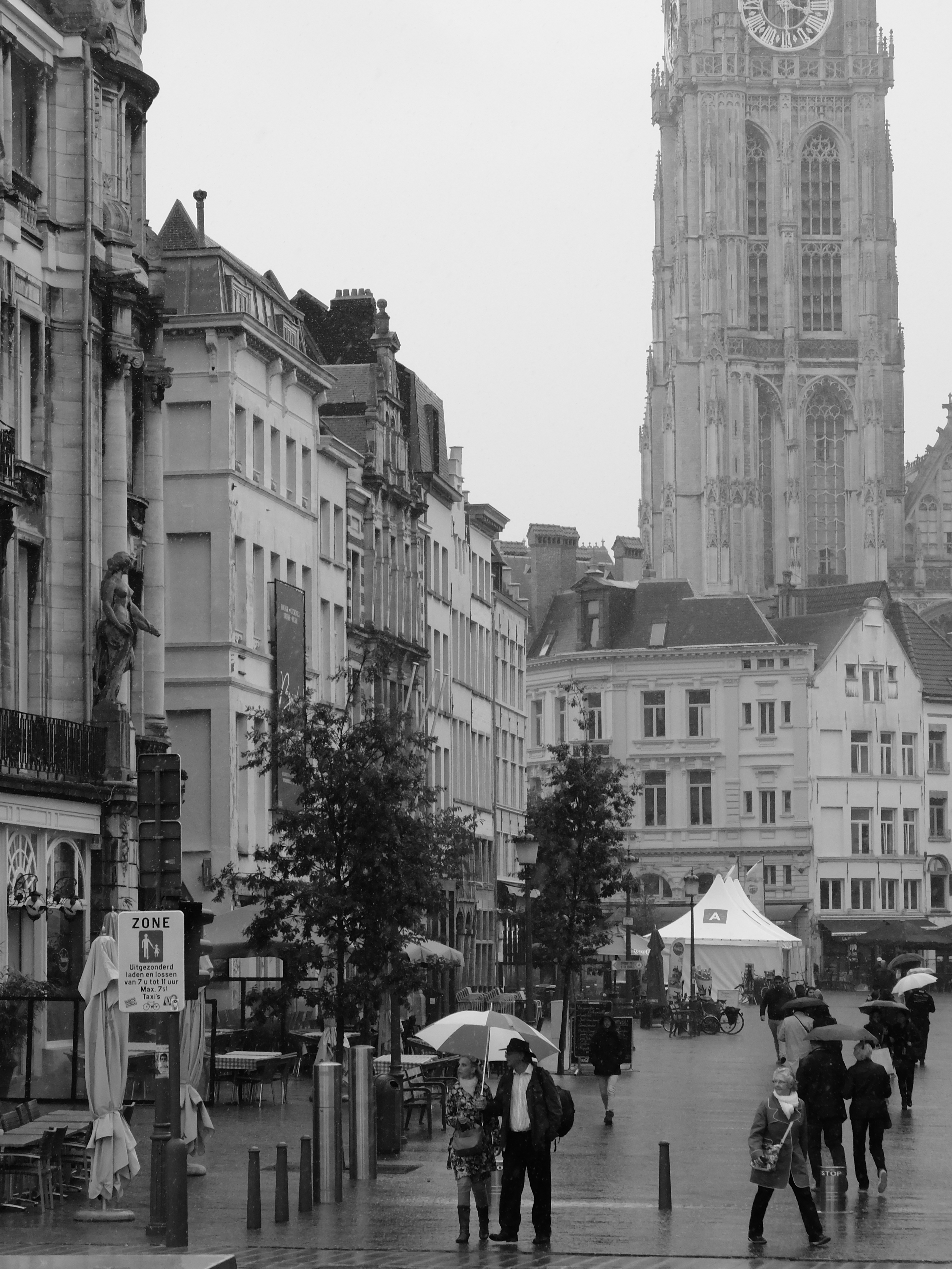 Suikerrui Antwerpen by Jules Grandgagnage